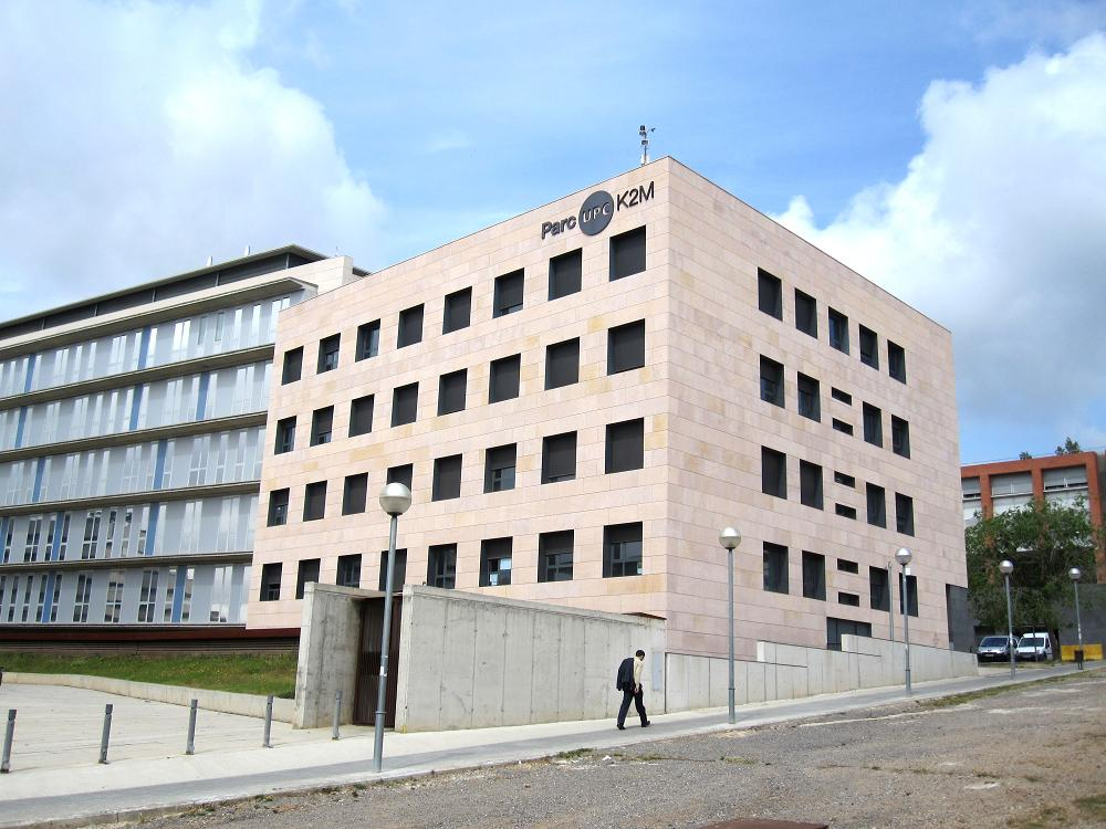 K2M Building,UPC